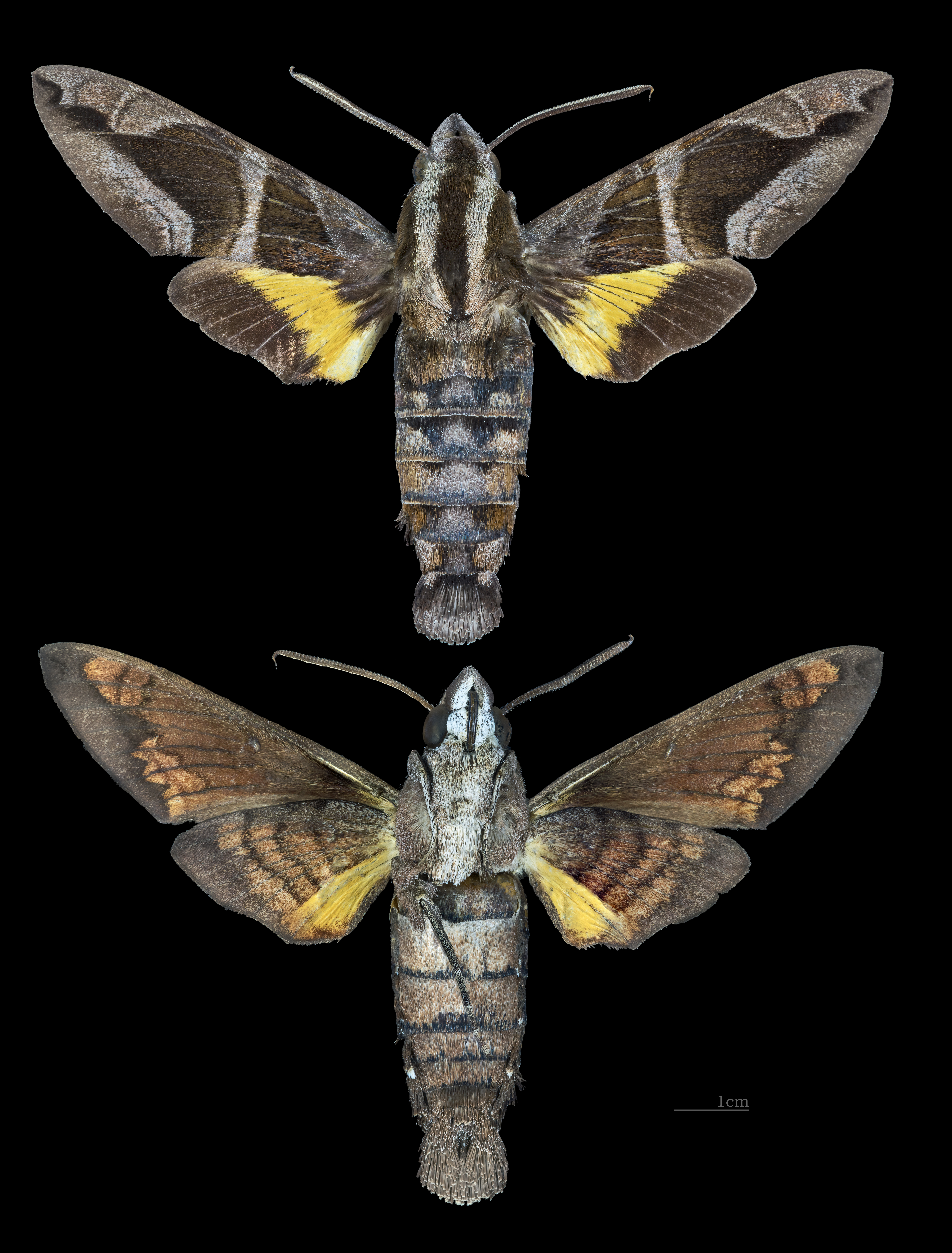 Macroglossum mitchellii - Two views of same specimen Collection of the Mathematician Laurent Schwartz